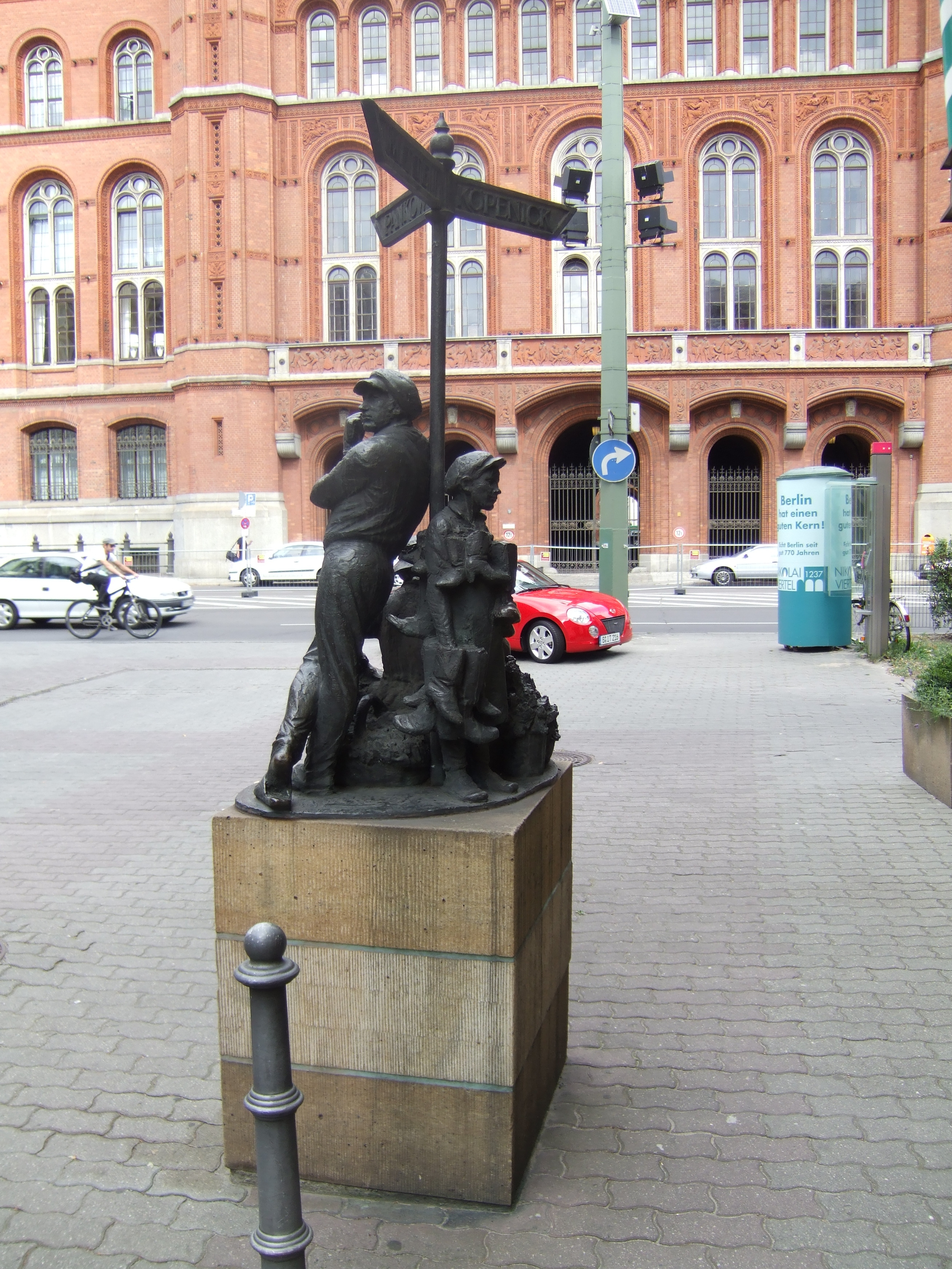 Humour statue in Nikolai's quarter (Berlin)